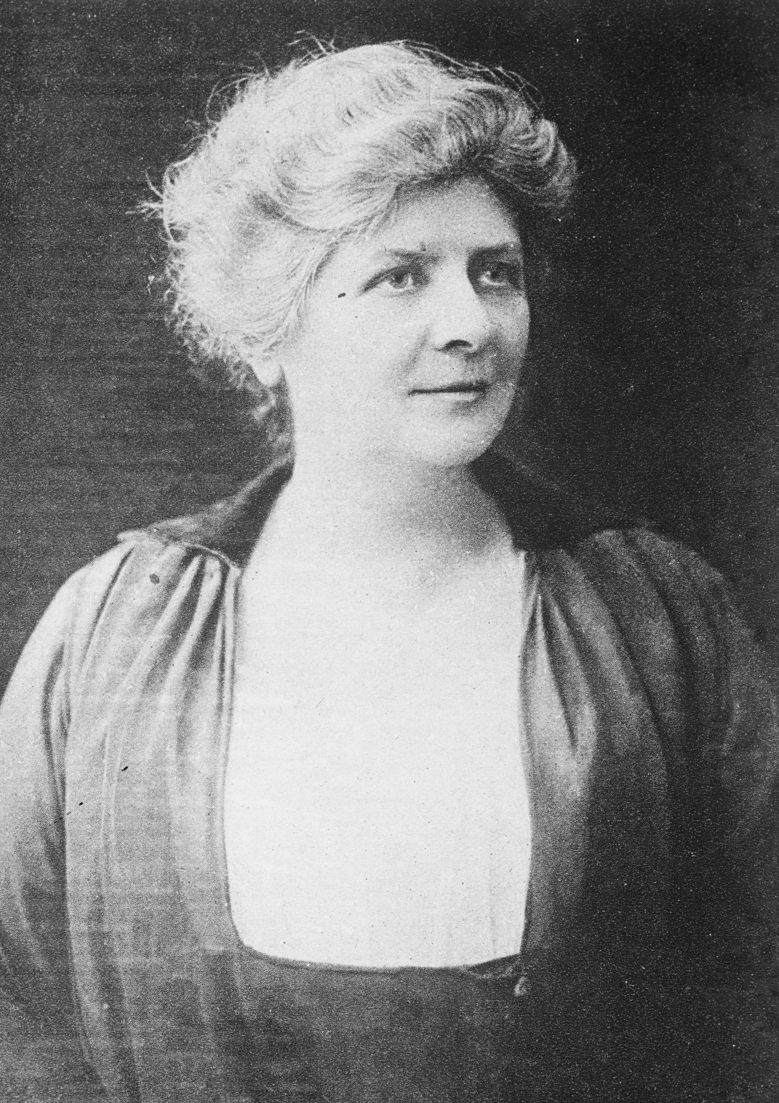 Jeanne Millerand (1864-1950), née Jeanne Levayer, wife of French President Alexandre Millerand (1859-1943)